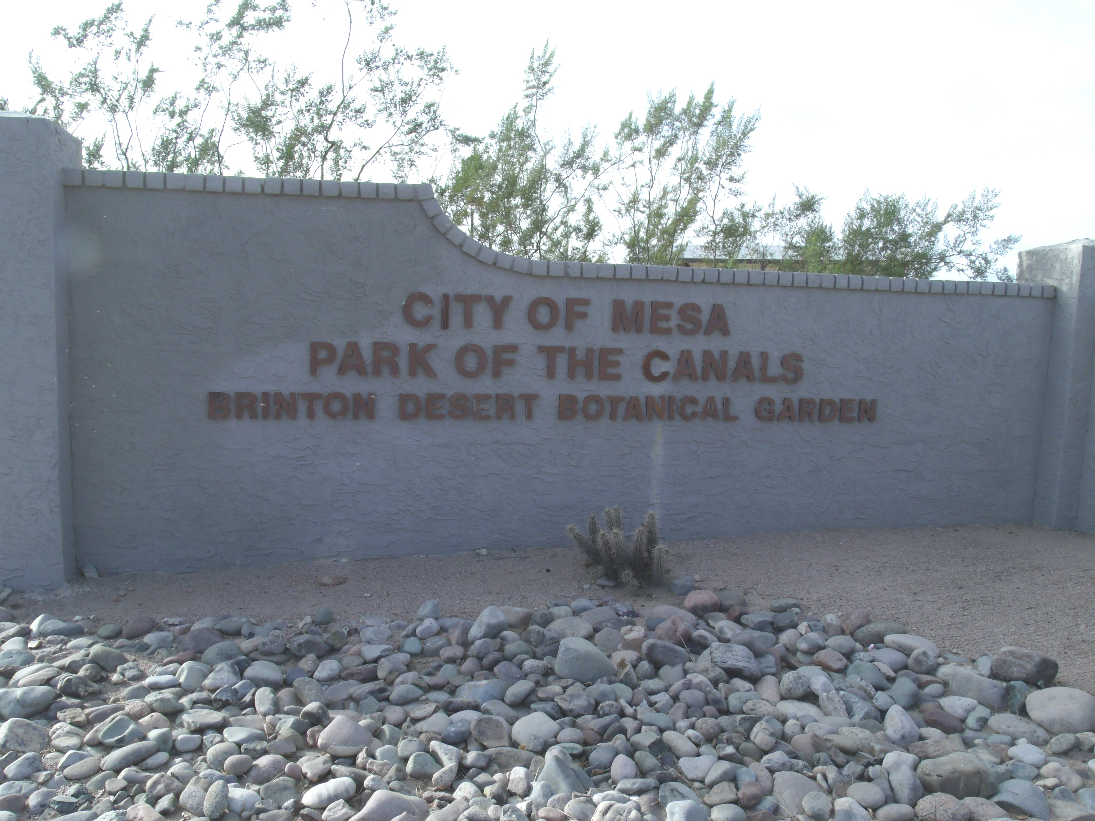 Entrance to the historic Park of the Canals located in 1710 N. Horne Av. In Mesa, Az. The Park of the Canals preserves about 4,500 feet of ancient canals built by the Hohokams. On May 30, 1975, the Park was listed in the National Register of Historic Places, reference number 75000350.